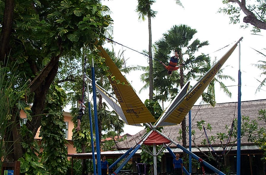 Waterbom Park: The Euro Bungy at Waterbom Park